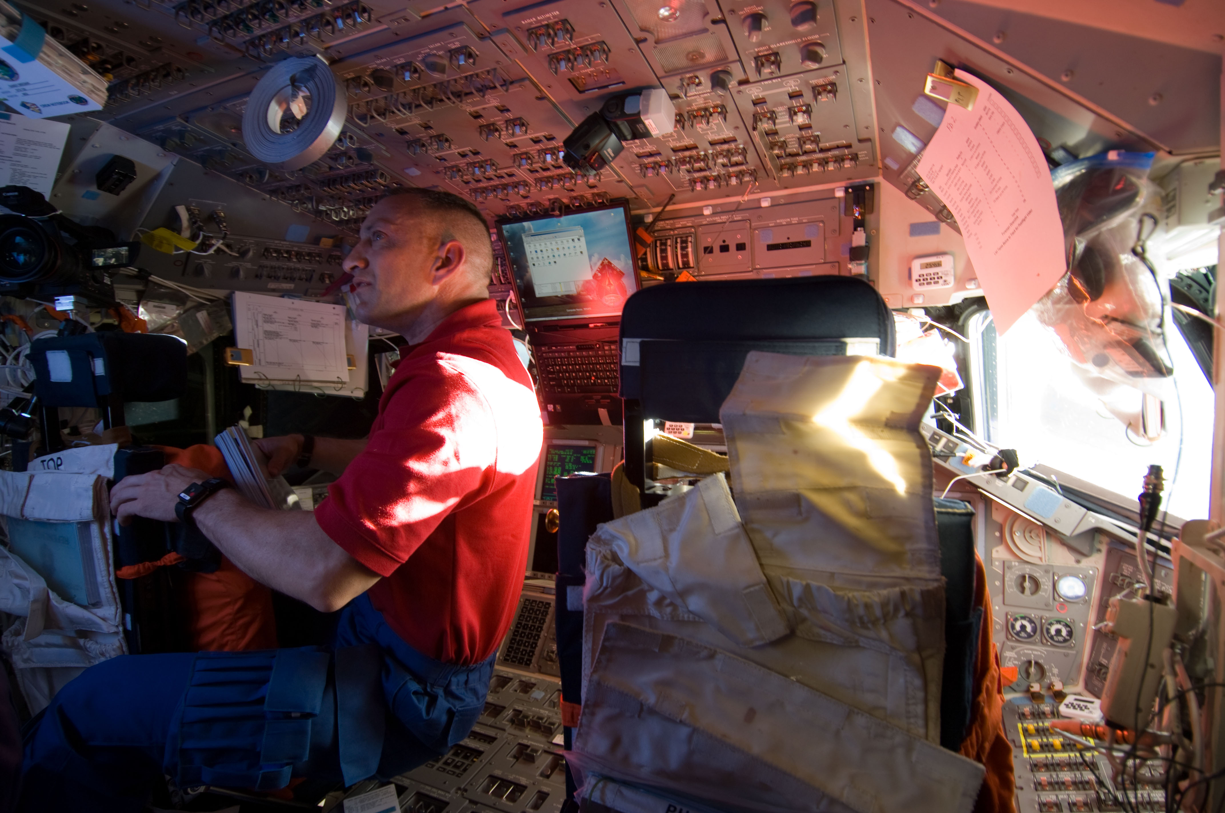 Astronaut Charles O. Hobaugh, STS-129 commander, is pictured on the flight deck of Space Shuttle Atlantis during flight day two activities.